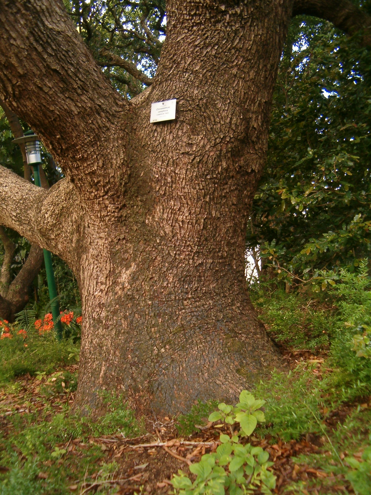 At Kirstenbosch National Botanical Gardens Species Cinnamomum camphora